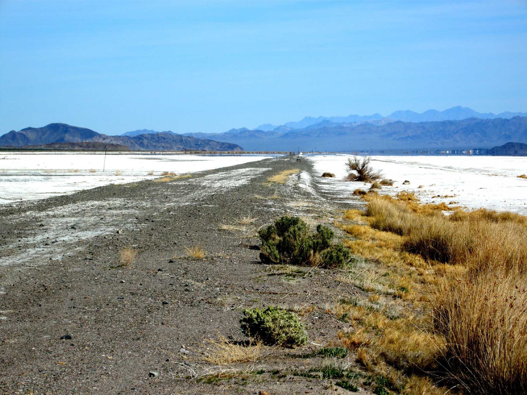 Abandoned railroad bed for the defunct Tonopah and Tidewater Railroad, crossing Soda dry Lake at Zzyzx, USA